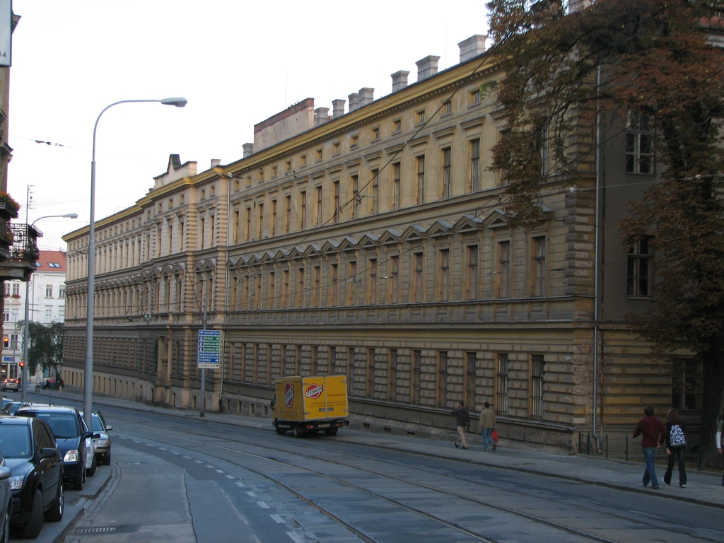 Building in Udolni street, Brno. The building is used by: Faculty of Electrical Engineering and Communication, Brno University of Technology (mainly) Faculty of Science, Masaryk University, Brno Faculty of Sports Studies, Masaryk University, Brno